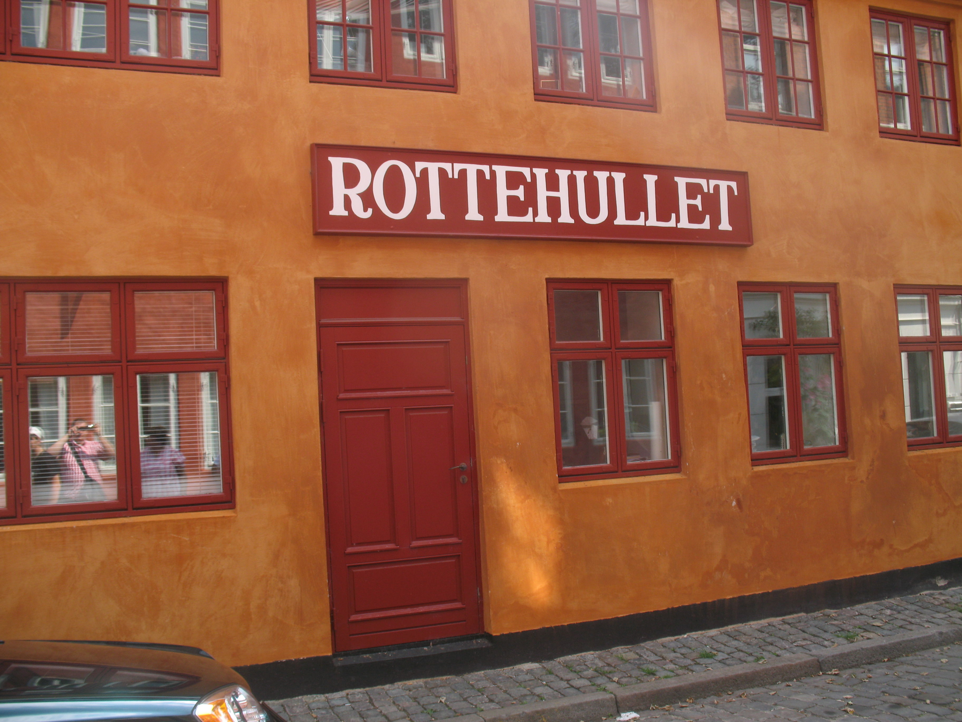 "Rottehullet" know for the Danish TV series Huset på Christianshavn